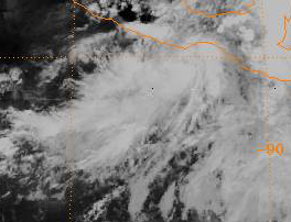 Tropical Storm Beatriz of 1993 near landfall